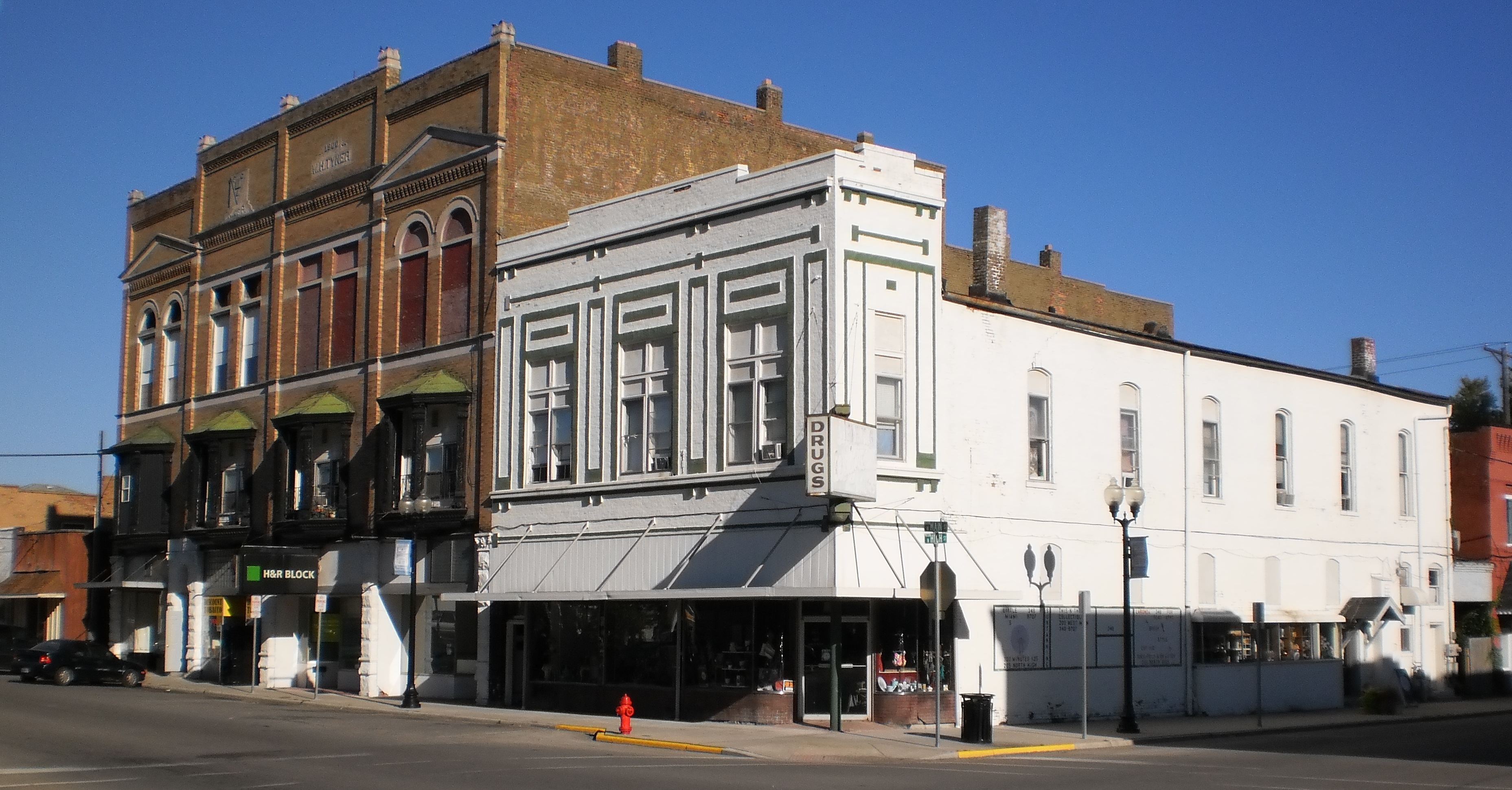 The Knights of Pythias / Tyner building is on left, and Gough Drugstore building (a.k.a. Sowers & Gough) is white building on right. Both are part of the Hartford City Courthouse Square Historic District, and were built during the Gas Boom era between 1890 and 1910. The Gough Drugstore was remodeled significantly in the 1940s. View is from NW corner of courthouse square.